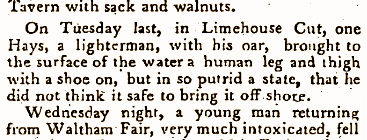 News item illustrating the insalubrious state of the Limehouse Cut, London